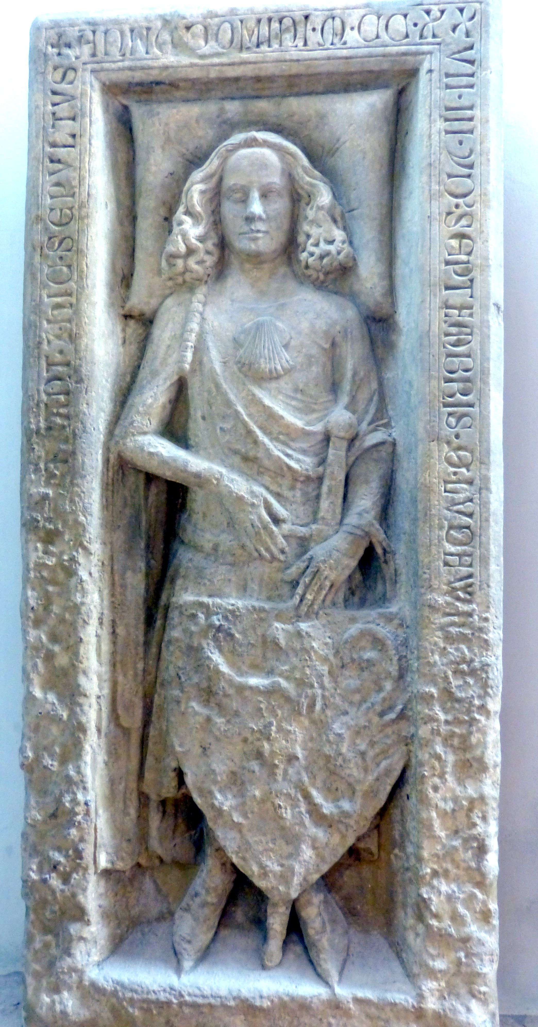 Eisenach ( Thuringia ). Saint George parish church - Grave monument ( 14th century ) for count Louis IV of Thuringia ( + 1227 ).